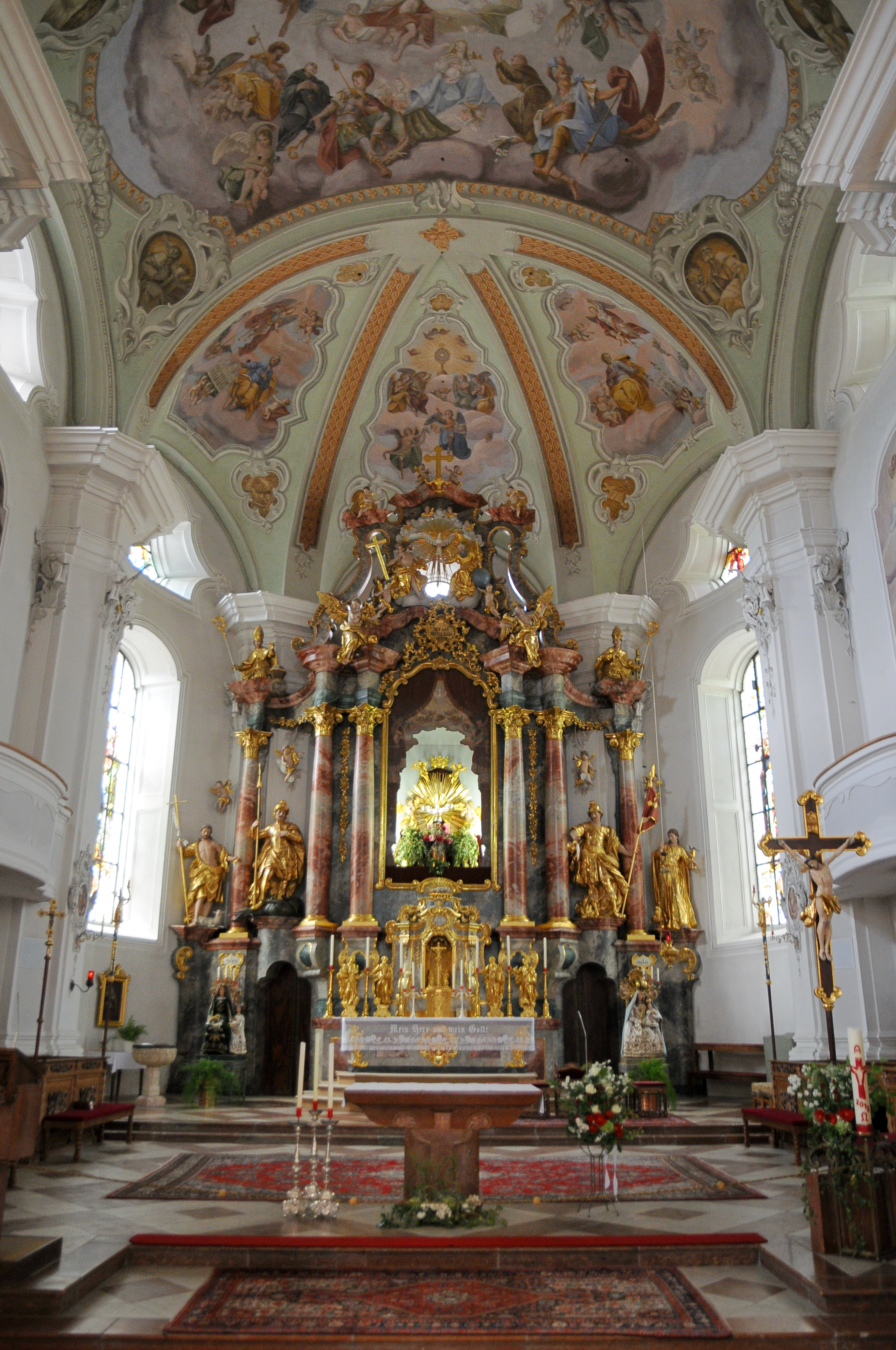 Roman-Catholic parish church St. James und St. Leonard of Hopfgarten im Brixental, Tyrol (Austria)